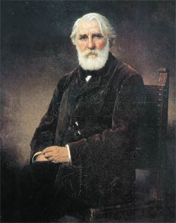 Ivan Turgenjev